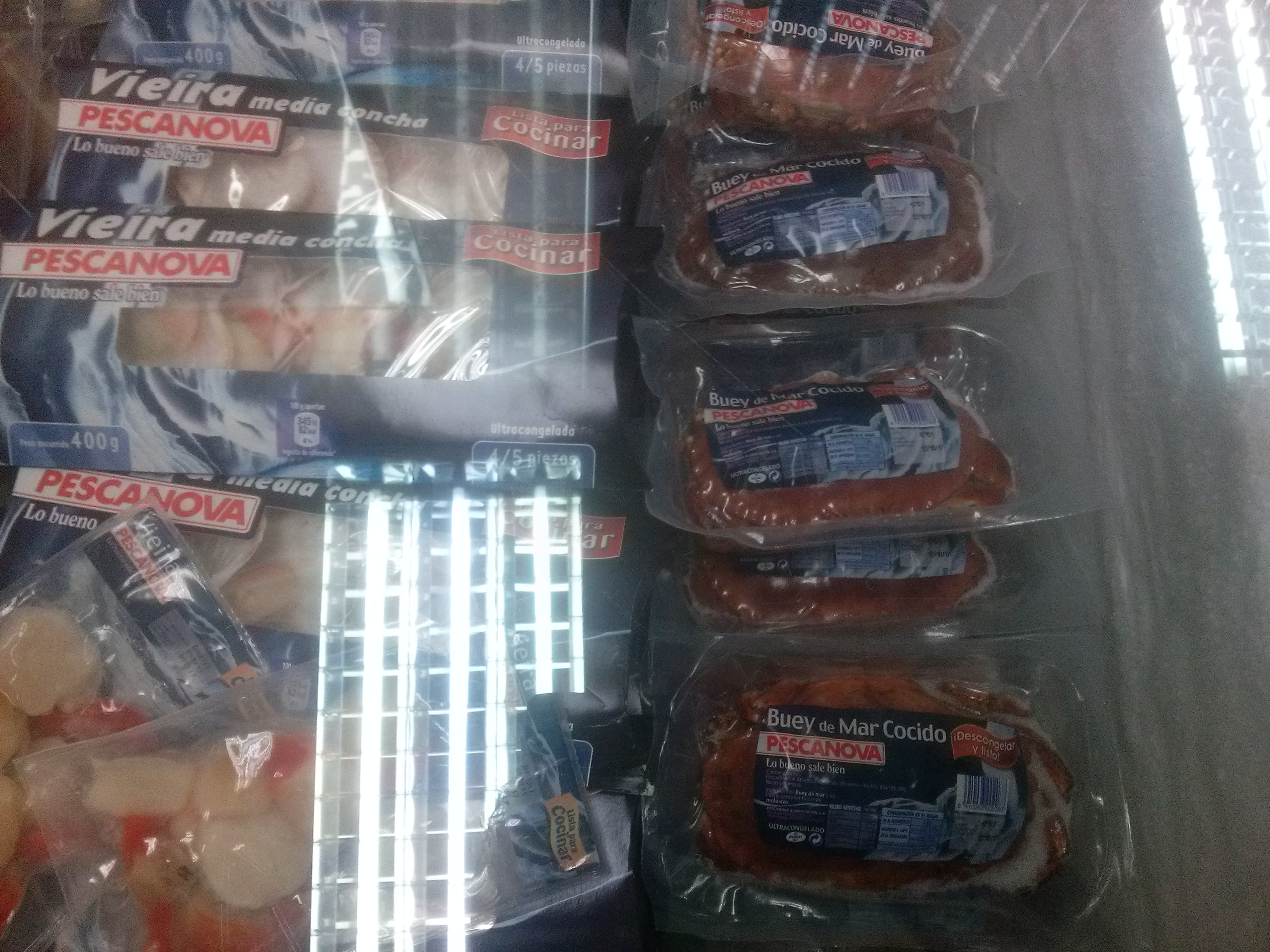 rico buaey de mar